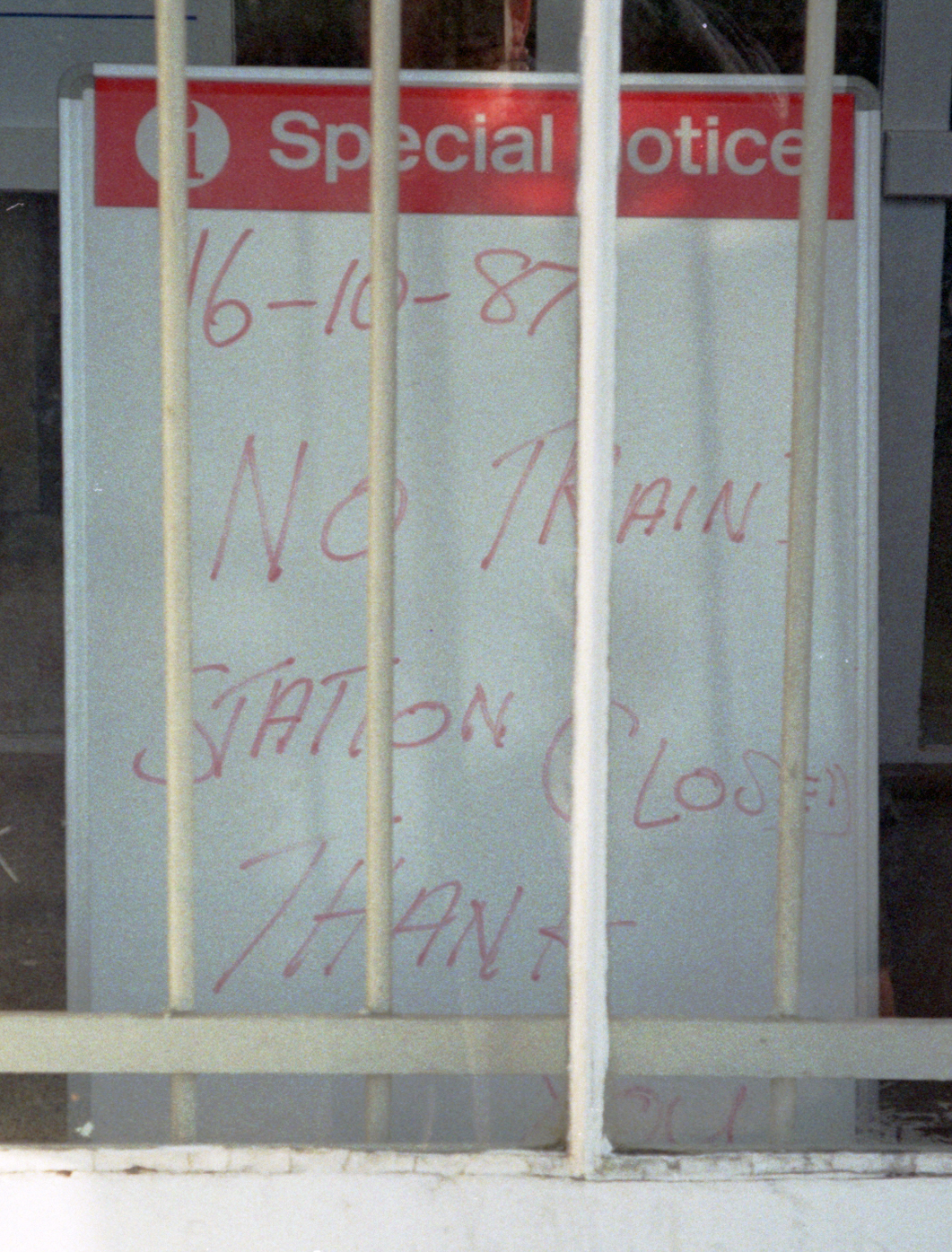 1987 "Great Storm" - Station Closed Notice at Honor Oak Park.